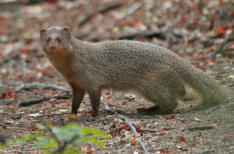 Description corrected as Indian Gray Mongoose or Common Grey Mongoose Herpestes edwardsii in Hyderabad , India.